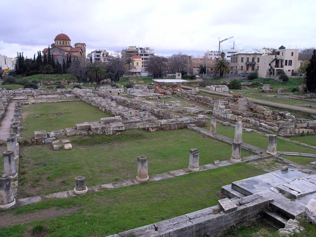 Overview of the Kerameikos archaeological site in Athens, from the propylon of the Pompeion, toward the NW. Photograph taken by Μαρσύας (2006)